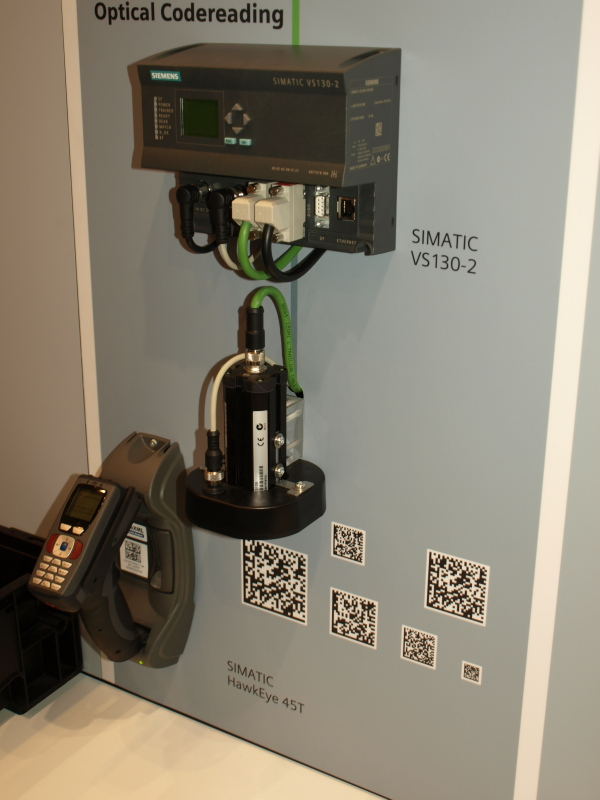 Readers for Data Matrix Code by Siemens. The codes read: Flexible Reading and Verification of 1D/2D Codes and